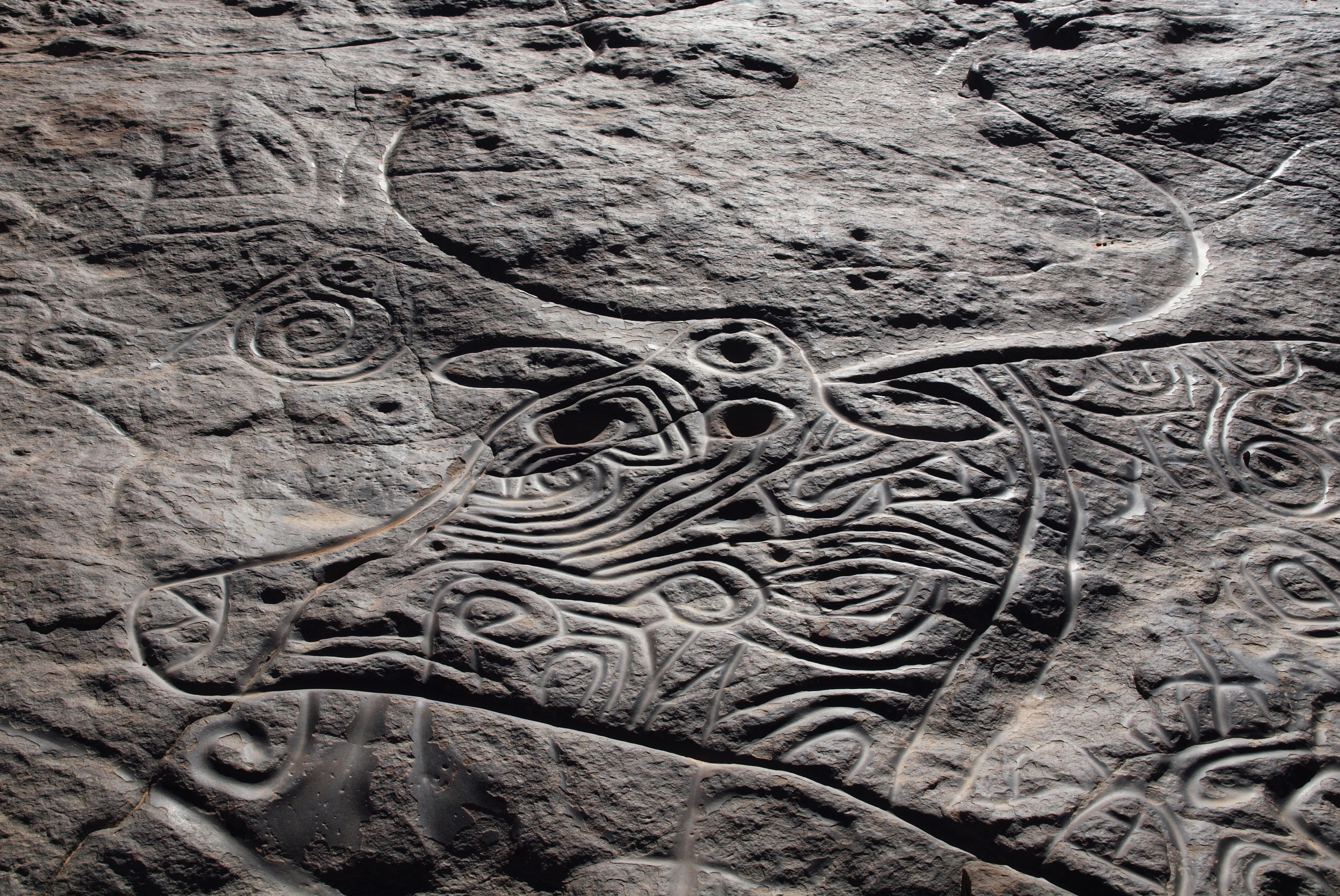 Detail of a petroglyph depicting a bubalus anticus, eponymous of the Bubalus Period of Saharan rock art. Located at Tin Taghirt on the Tassili n’Ajjer in southern Algeria.